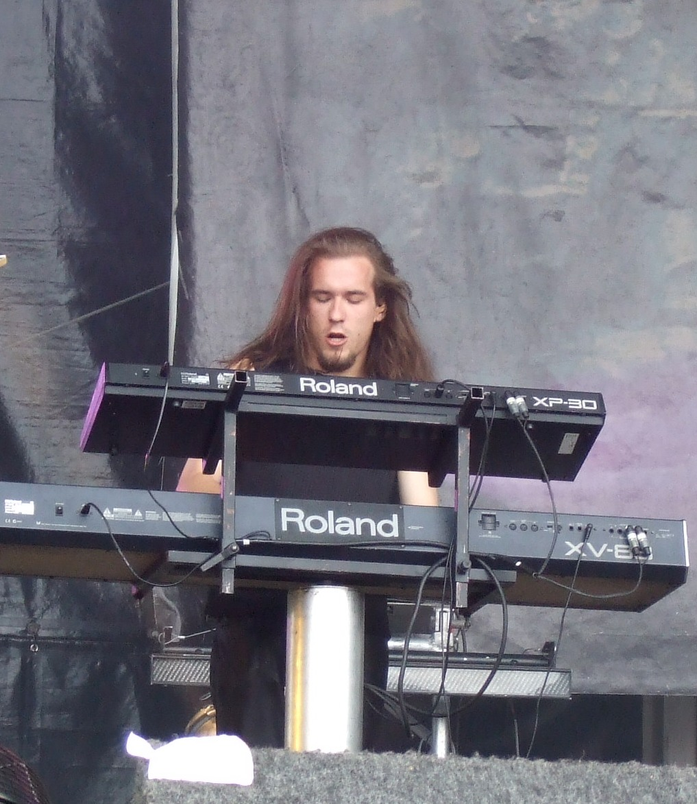 Epica at Hellfest Summer Open Air 2007.